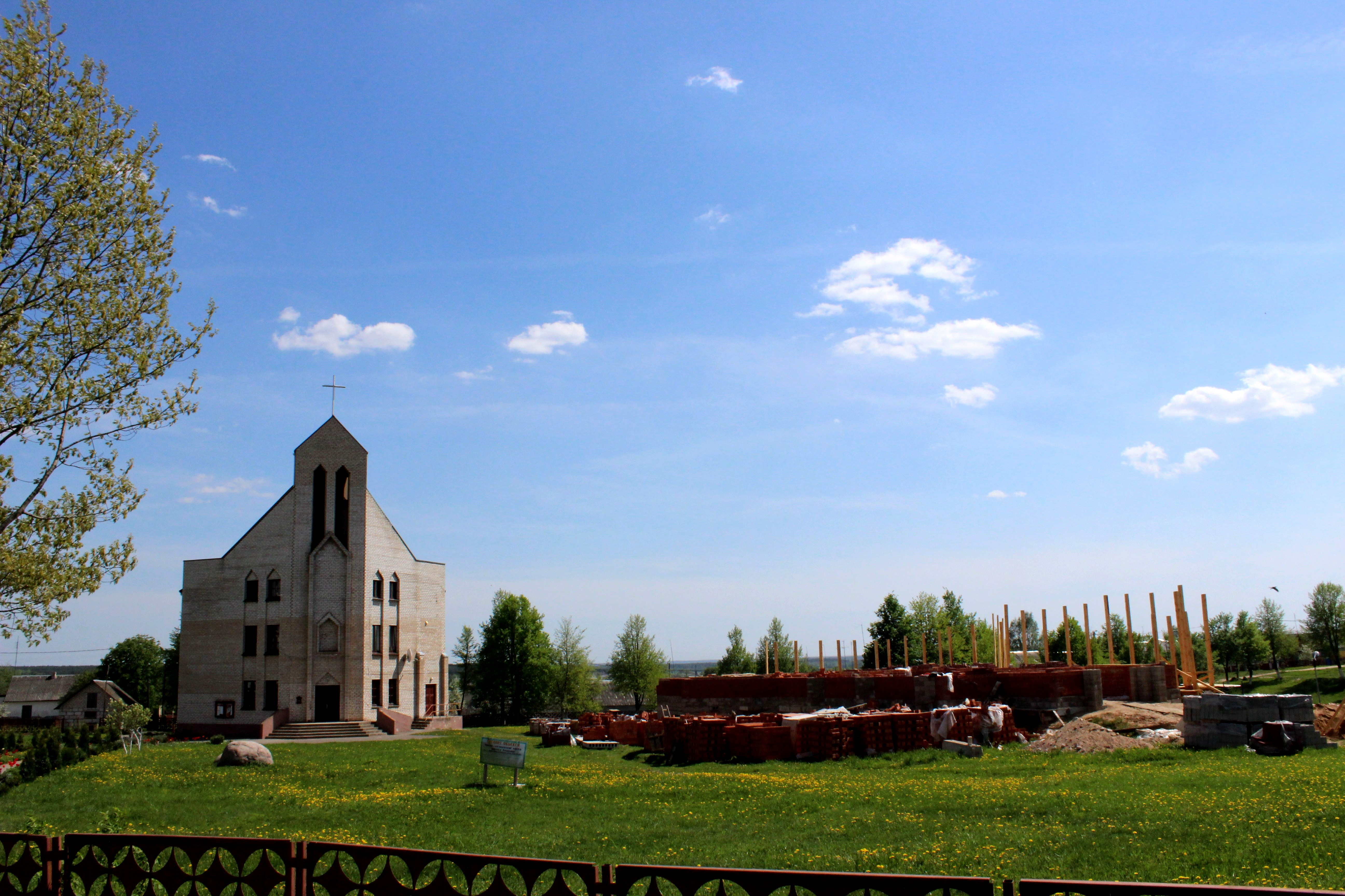 Church of Saint Kazimir in Stoŭbcy, 1999 of construction